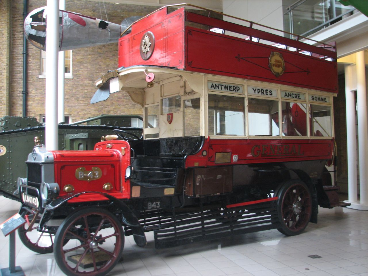 LGOC Type B motor bus B43 "Ole Bill" used by Britain to transport troops on the Western Front in World War I. On display at Imperial War Museum London. See File:Ole Bill Inside IWM.jpg for inside view.